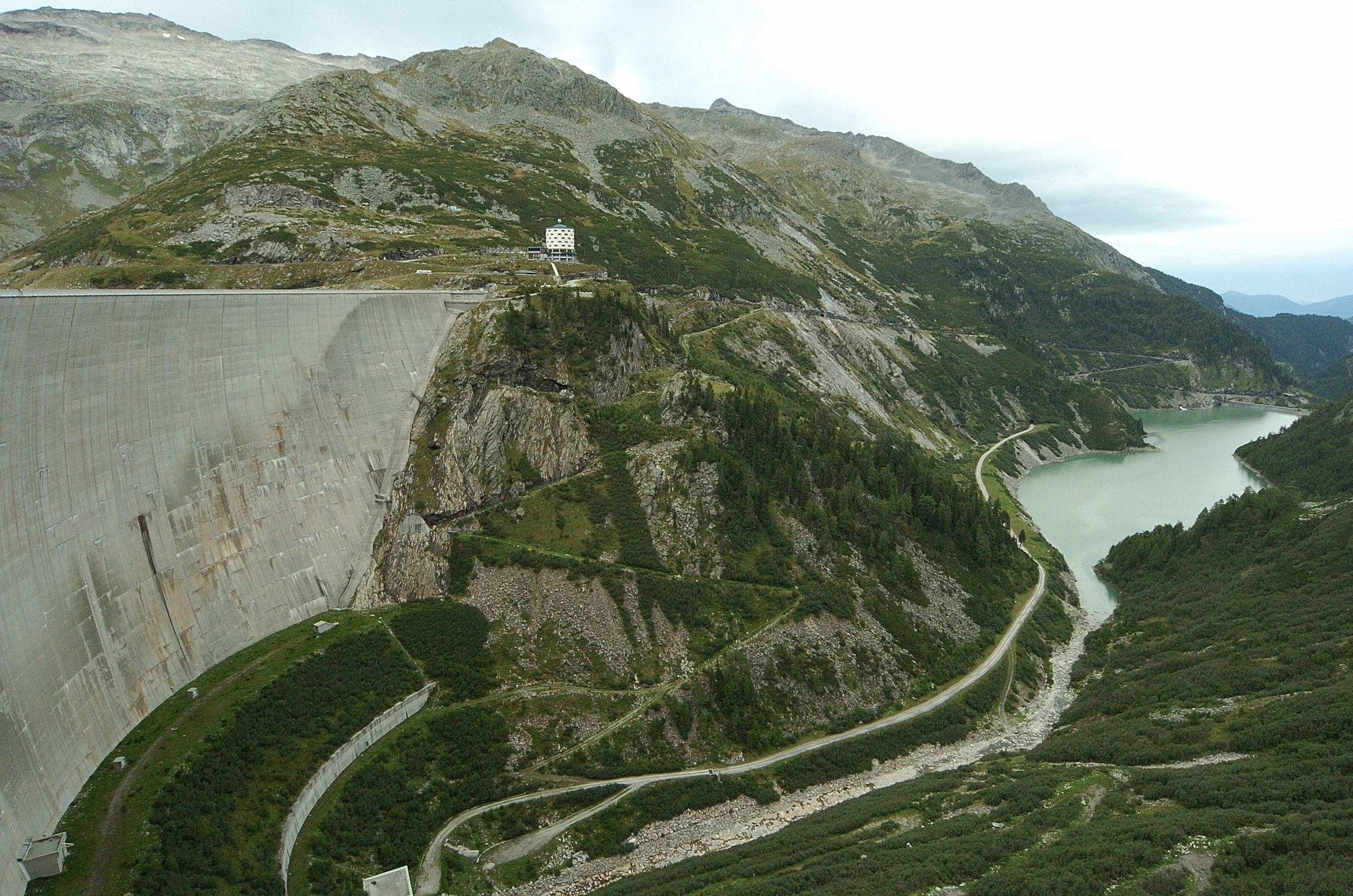 Powerplant Koelnbrein in Malta, district Spittal on the Drau, Carinthia, Austria